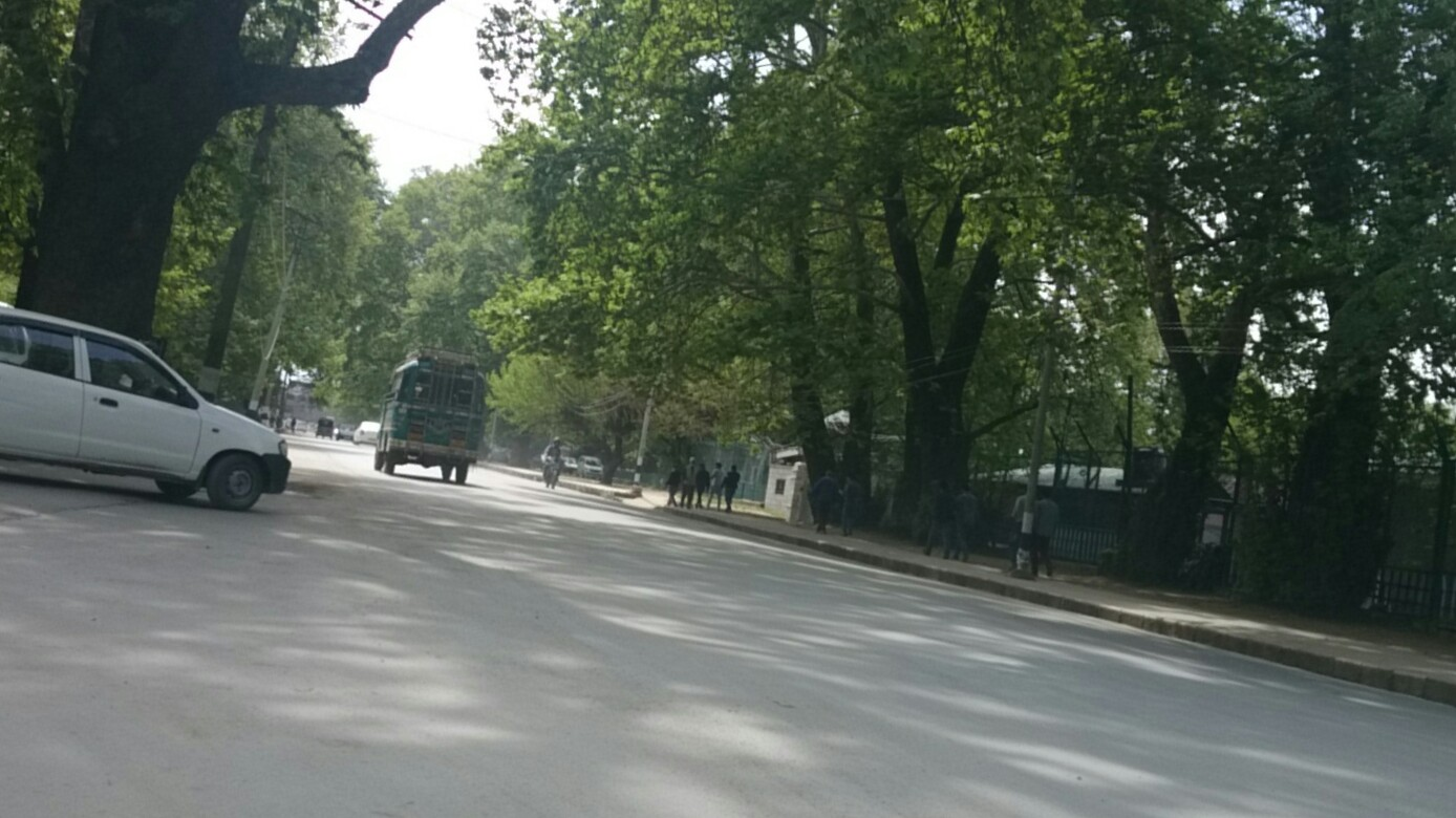 A view of Residency Road during Summer.